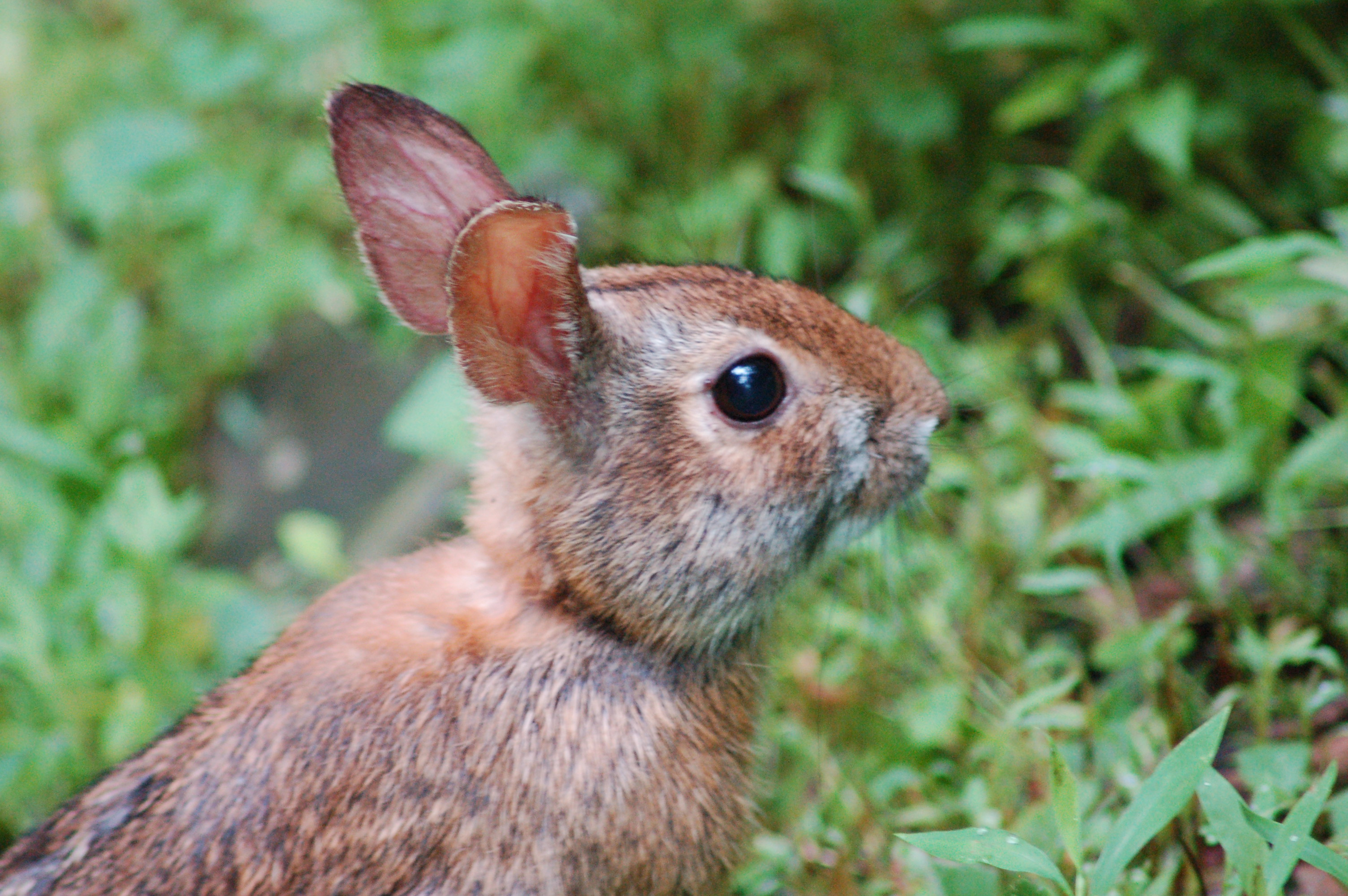 Appalachian Cottontail (Sylvilagus obscurus)